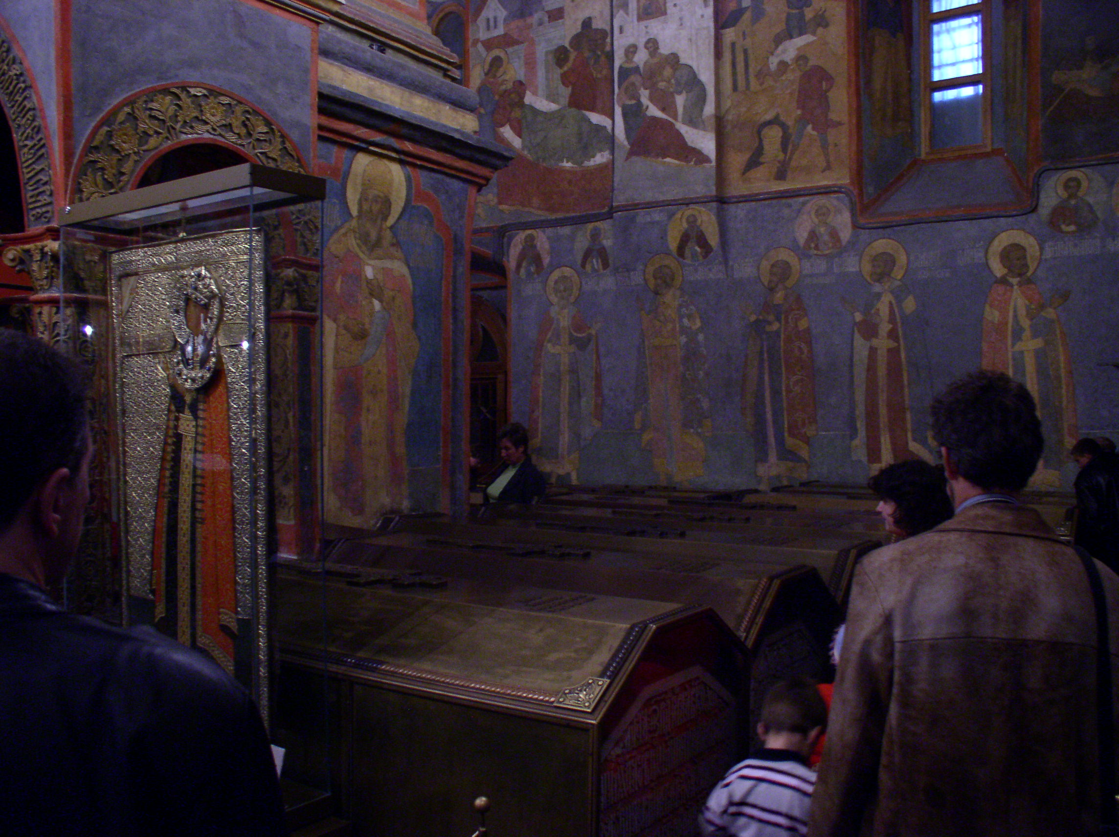 Moscow Kremlin museums exhibitions. Moscow, Russia.